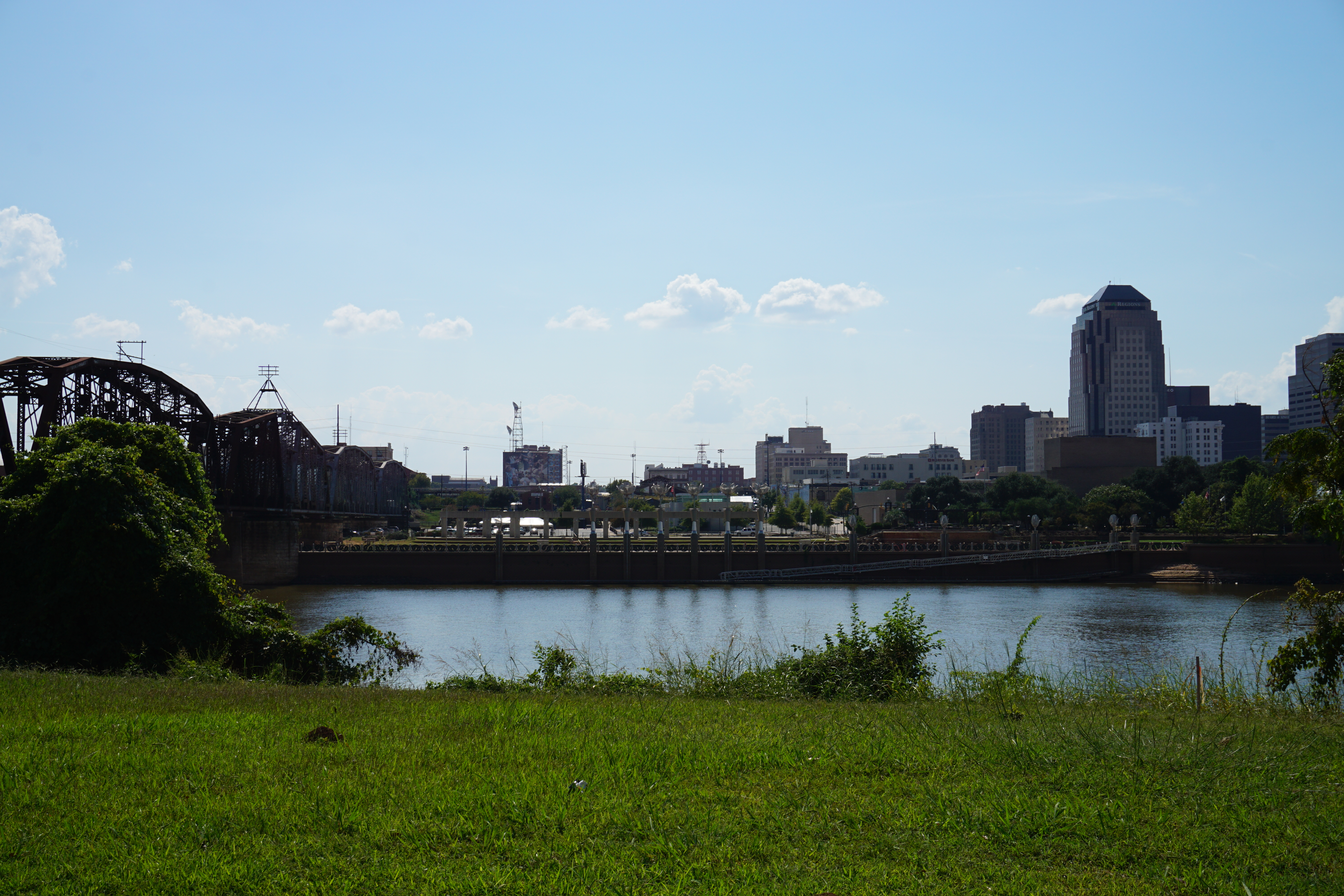 A view of the Shreveport skyline from Bossier City, Louisiana (United States).